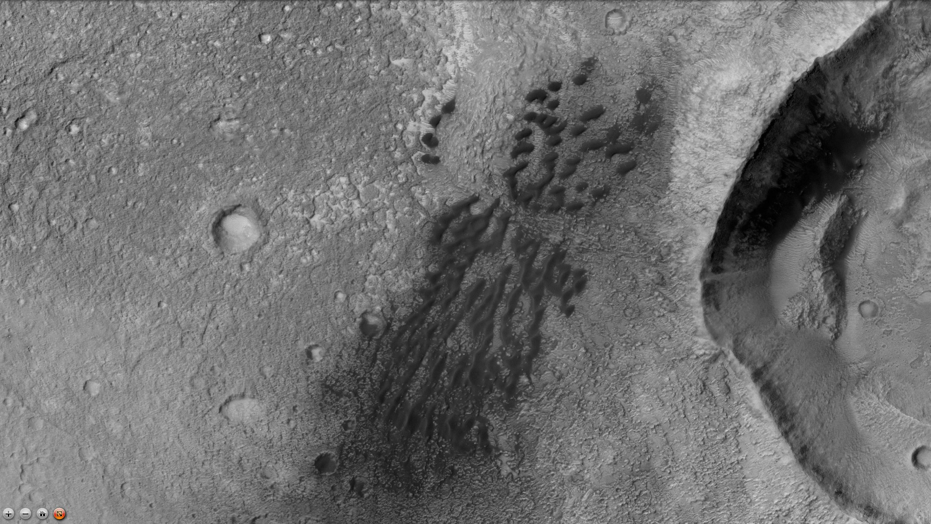 Hadley Crater showing dunes on floor, as seen by ctx